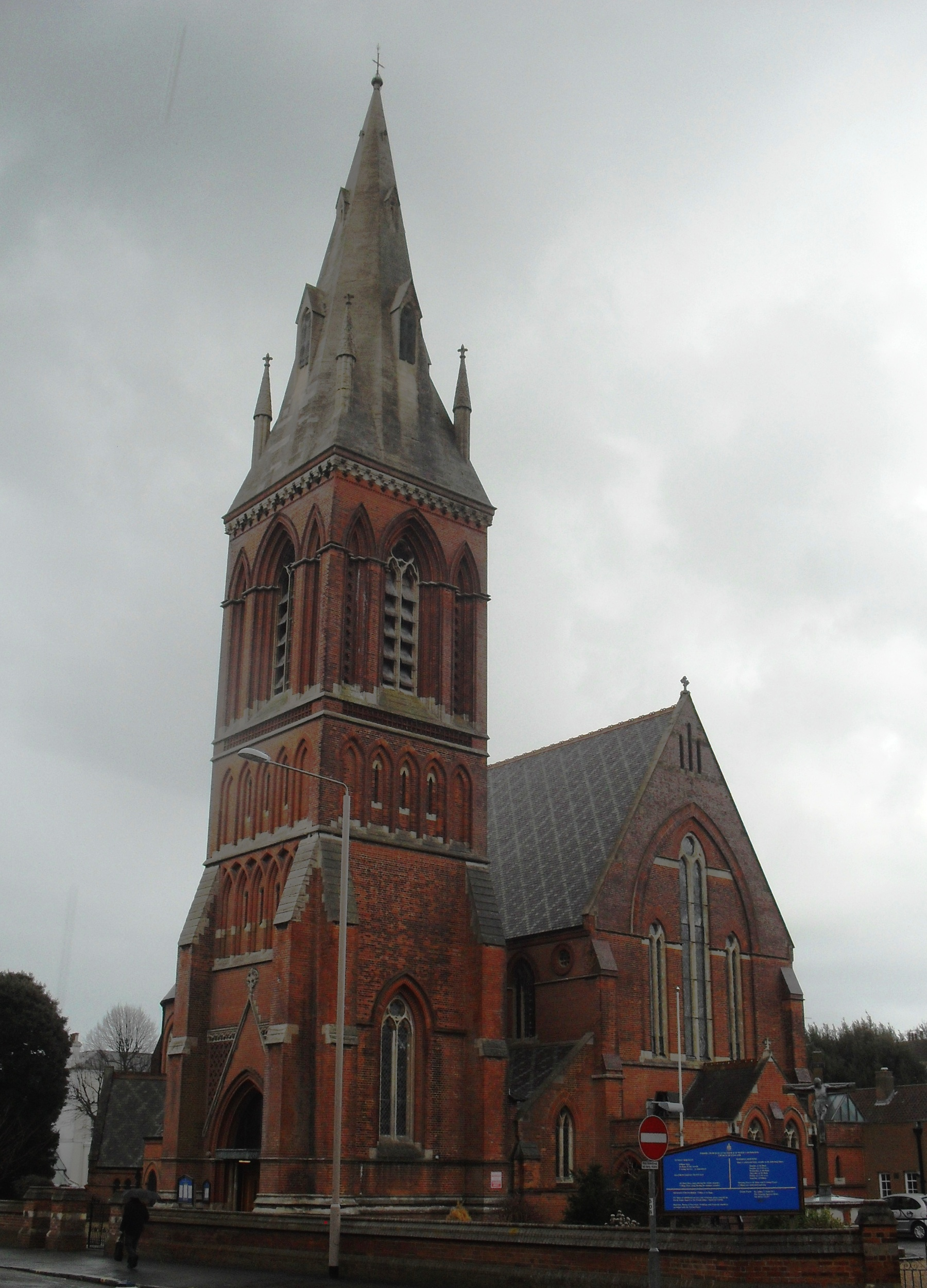 St Saviour's Church, South Street, Eastbourne, East Sussex, England. Built in 1867 by G.E. Street. Listed at Grade B by English Heritage (IoE Code 293602)